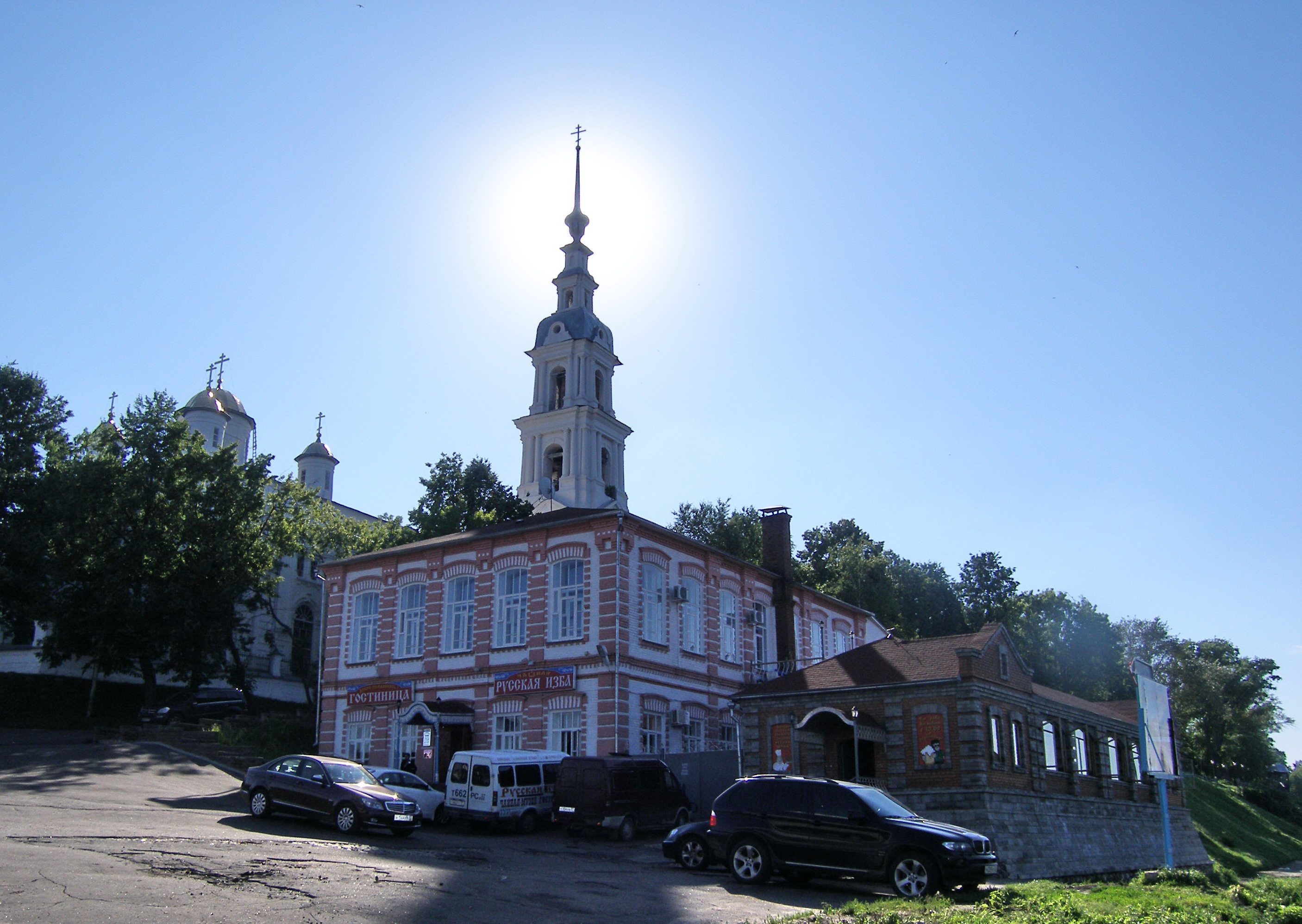 Kineshma, Russia